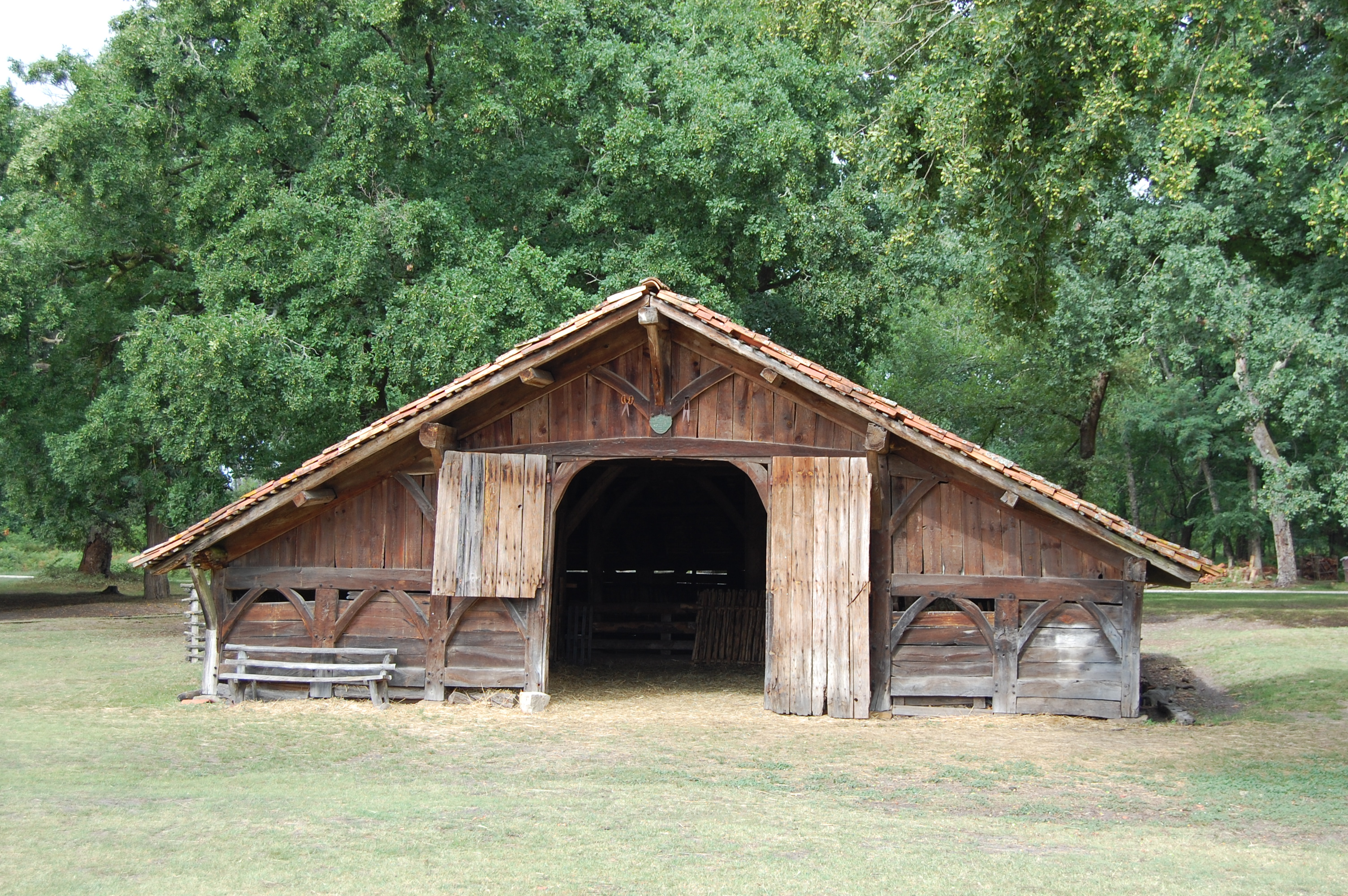 Marquèze